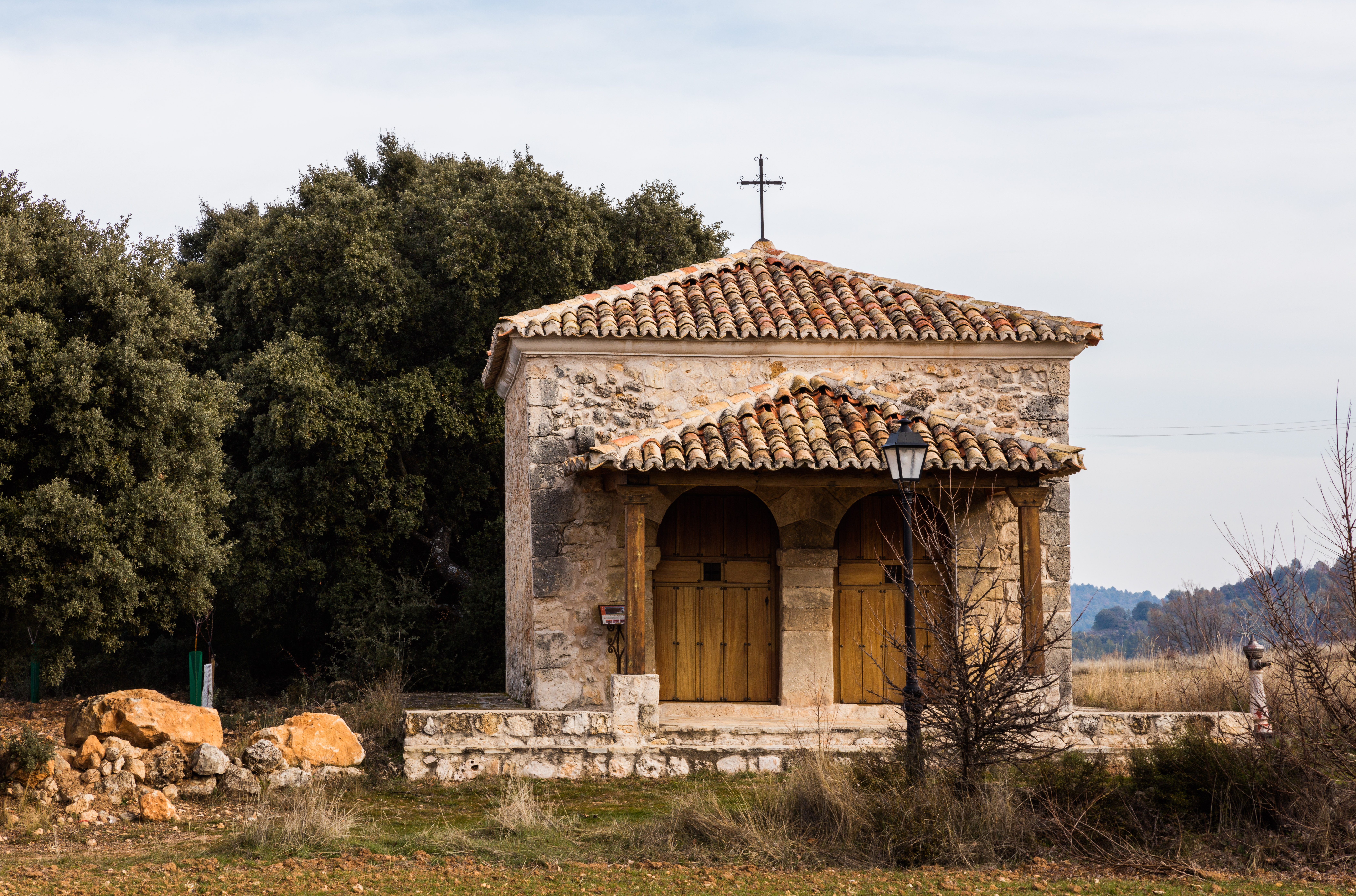 Hermitage of St Roque, Mantiel, Guadalajara, Spain